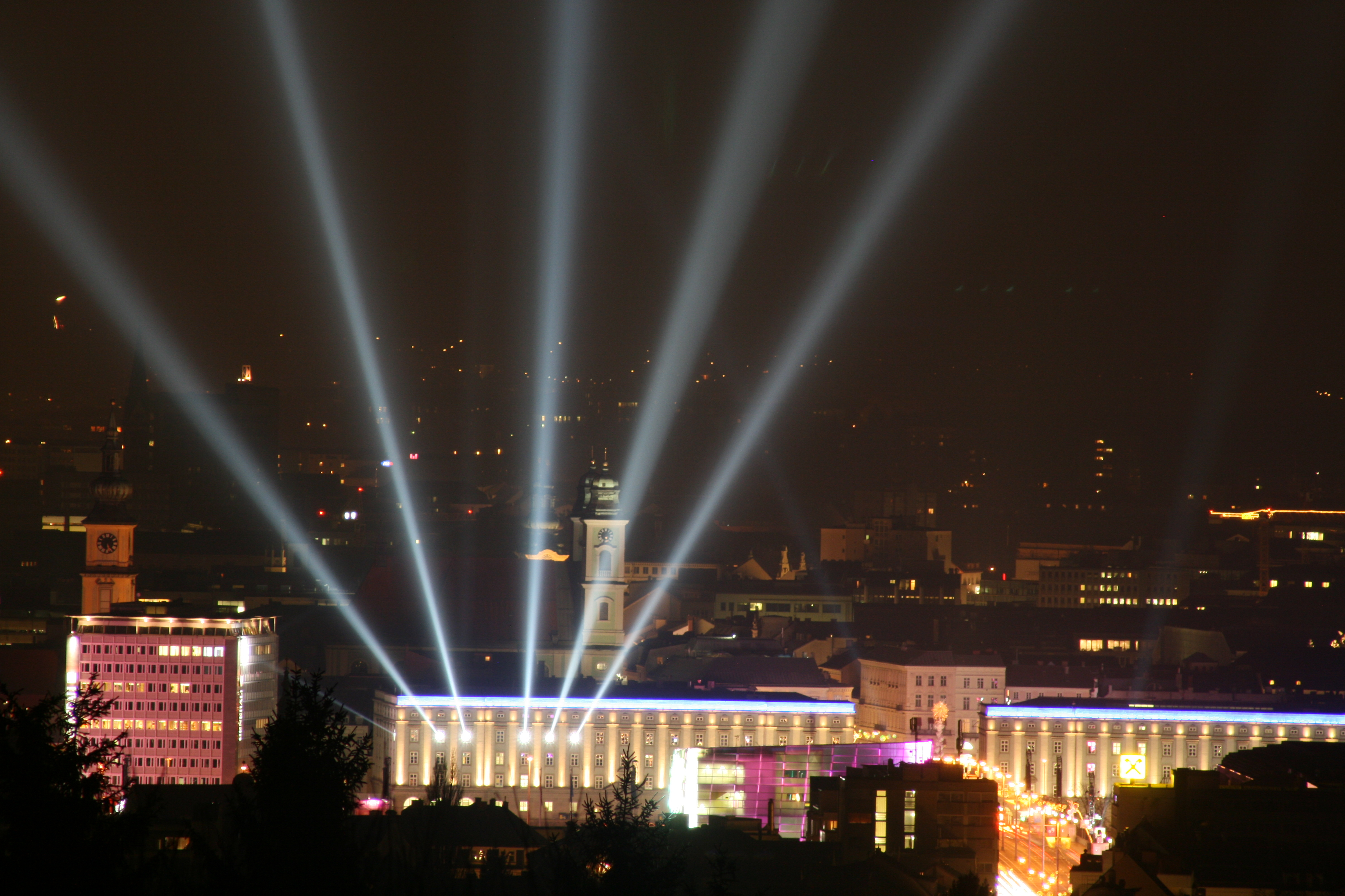 Brückenkopfgebäude Ost, ehem. Finanzamt